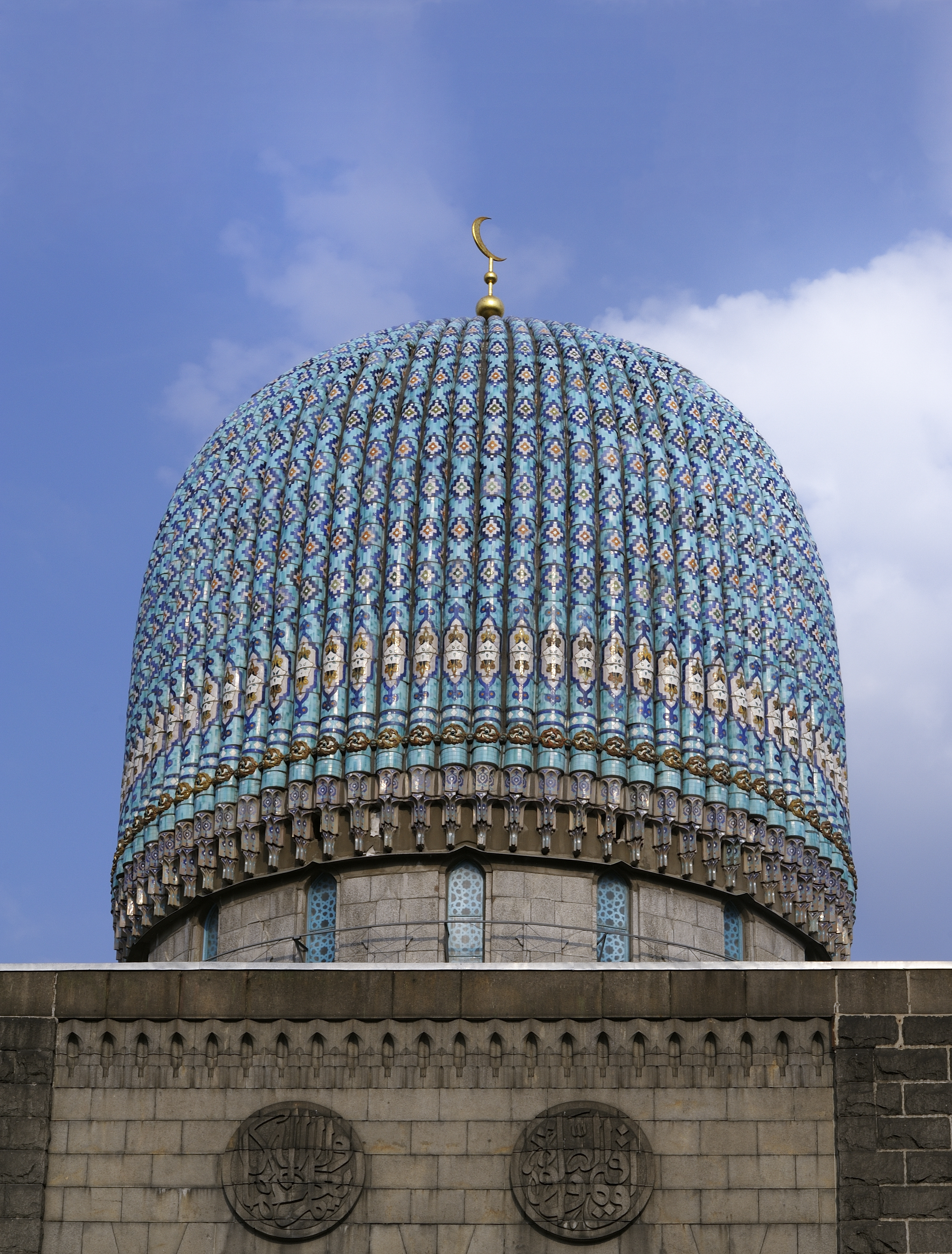 Dome of the St.-Petersburg cathedral mosque. The mosque was erected per 1909-1920 under the project of architect N. V.Vasileva with the assistance of engineer S.S.Krichinsky and the architect A. I. fon Gauguin's background..